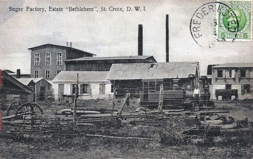 Sugar Factory, Estate 'Bethlehem', St. Croix. D.W.I., narrow gauge sugar mill locomotive in the Danish West Indies (Dansk Vestindien), 1902